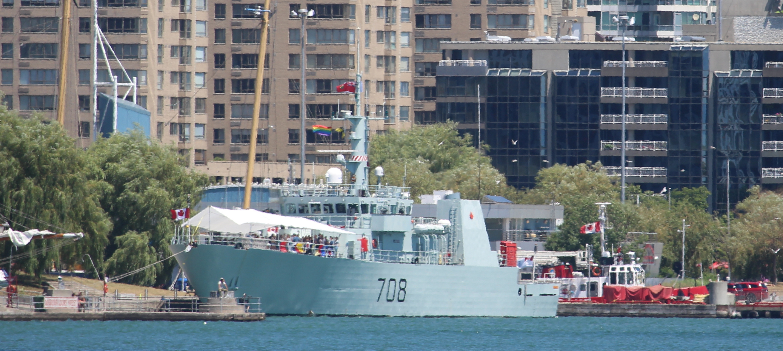 Docked at HTO Park West, as part of the Great Lakes Tour, Summer 2018